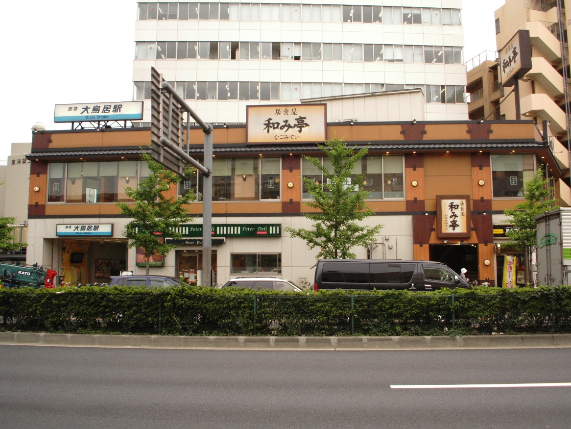 Otorii station